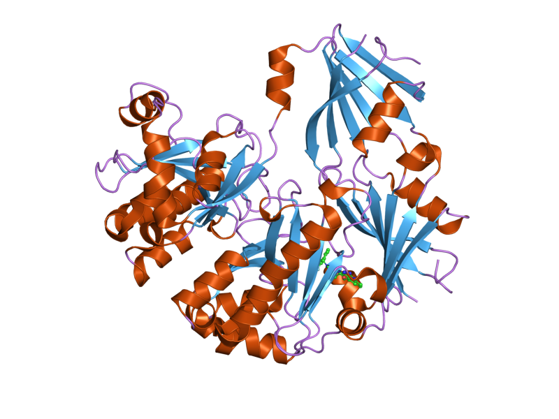 Cartoon representation of the molecular structure of protein registered with 3bl7 code.